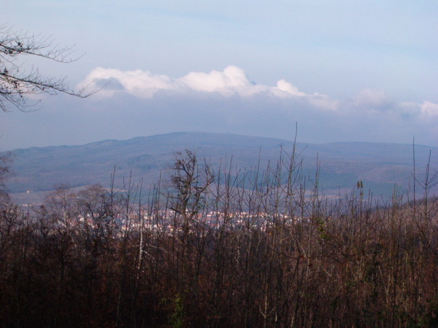 Photo taken by the Uploader. Free and shared to everyone, for all purposes. Gubbubu 19:57, 20 November 2005 (UTC)